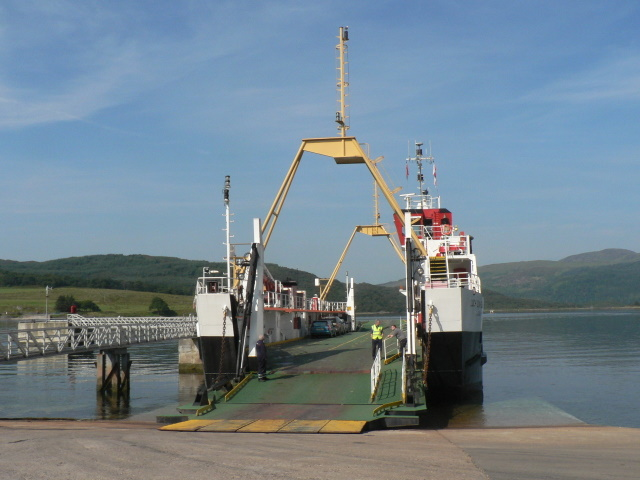 Colintraive: Bute ferry This must be the shortest – and cheapest – of the CalMac services.